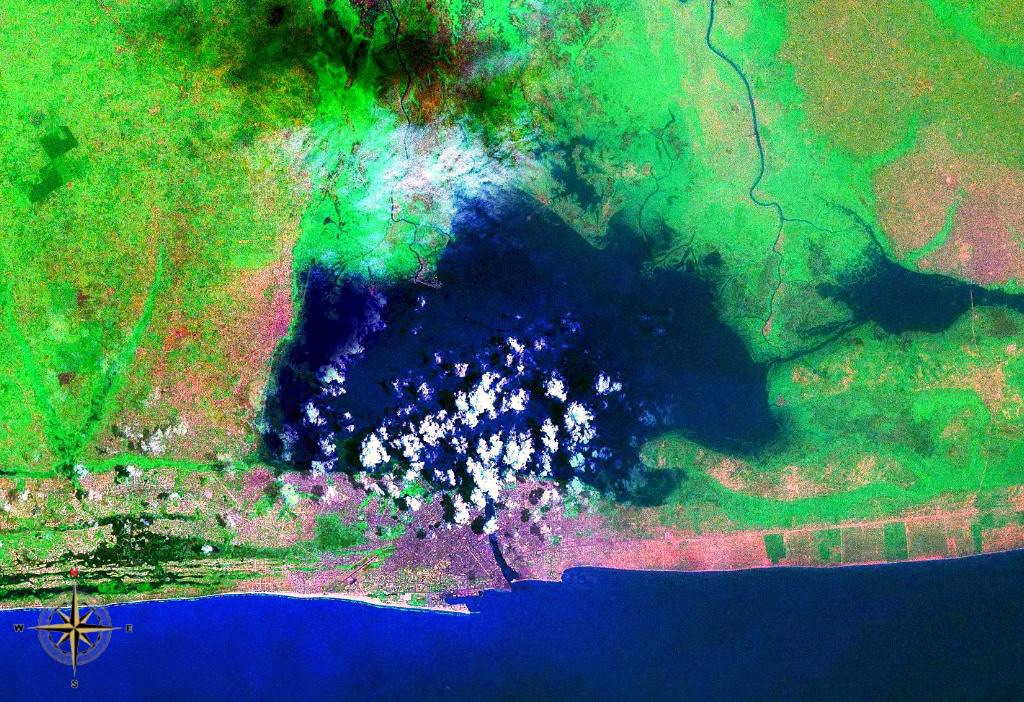 Lake Nokoué in Benin. Satellite view.